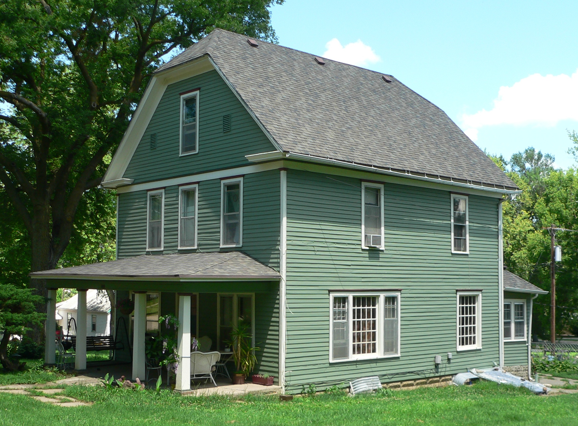 Susan La Flesche Picotte House at 100 S. Taft Street in Walthill, Nebraska; seen from the southwest. Built in 1907, the house is listed in the National Register of Historic Places.